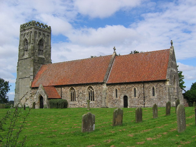 St Elgins Church, Church End, North Frodingham, East Riding of Yorkshire, England.The church is on the east edge of the grid square. Frodingham Beck flows NS through this farming area.